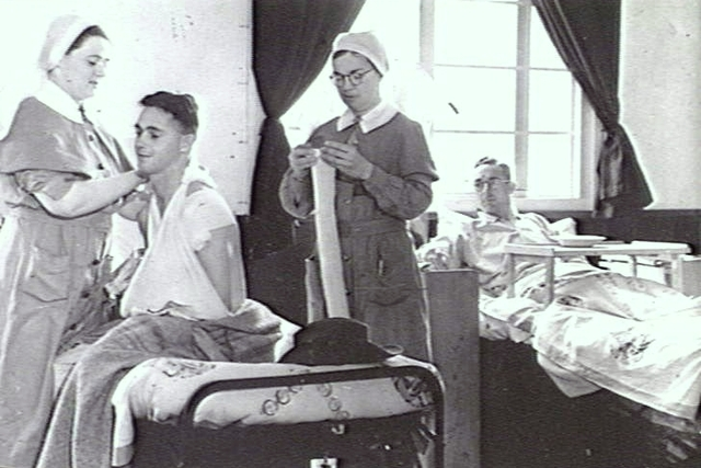 SURREY, ENGLAND. 1940-11. SISTER BARVEY AND SISTER FREEMAN OF THE AUSTRALIAN ARMY NURSING SERVICE TENDING TO PATIENTS IN WARD 10 OF THE 2/3 AUSTRALIAN GENERAL HOSPITAL.